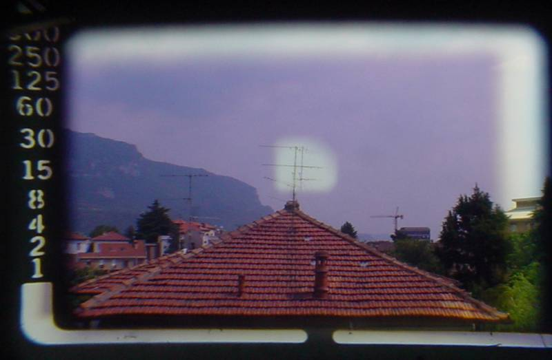 Rangefinder of an Olympus XA